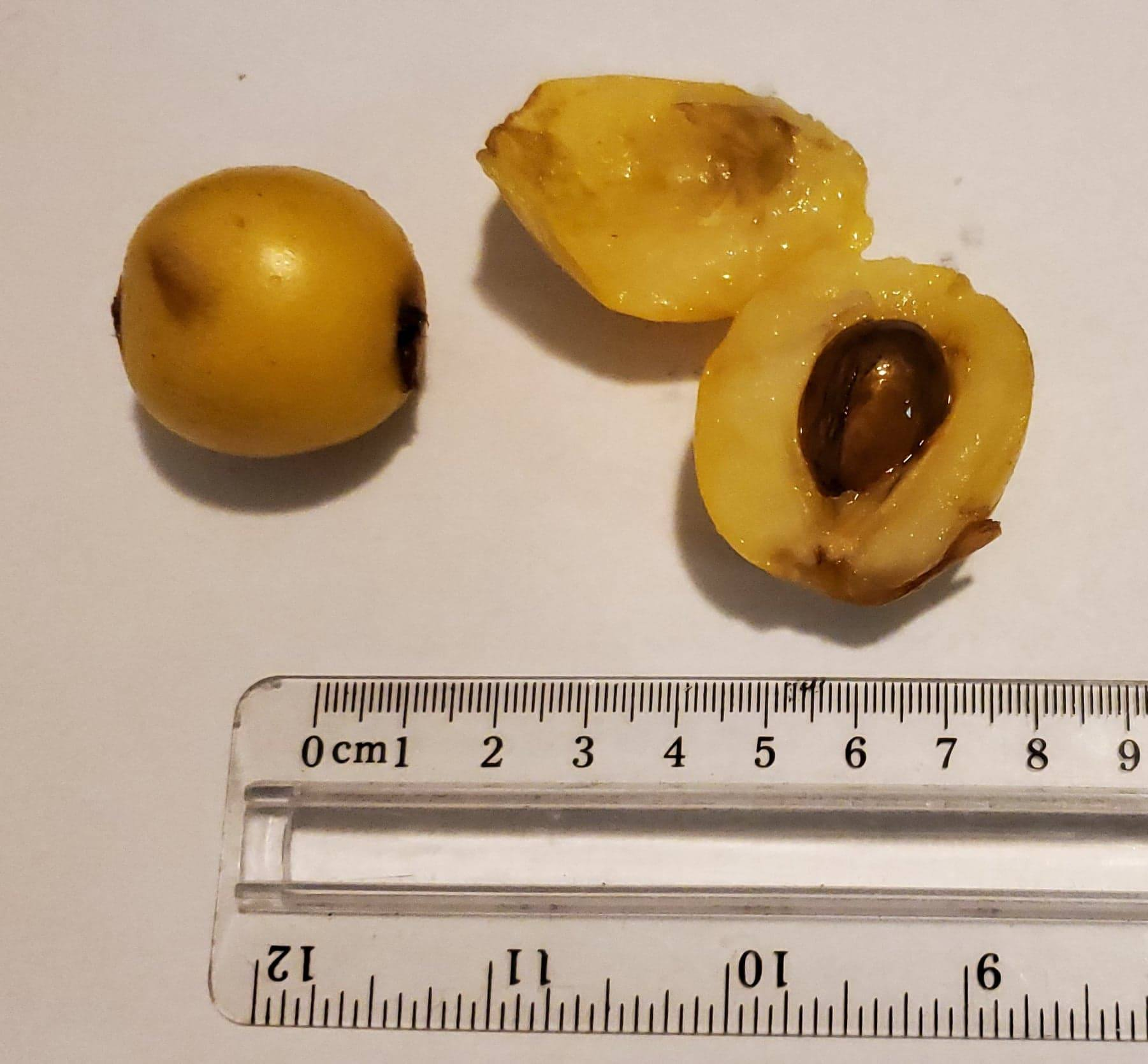 Ripe single seeded loquats